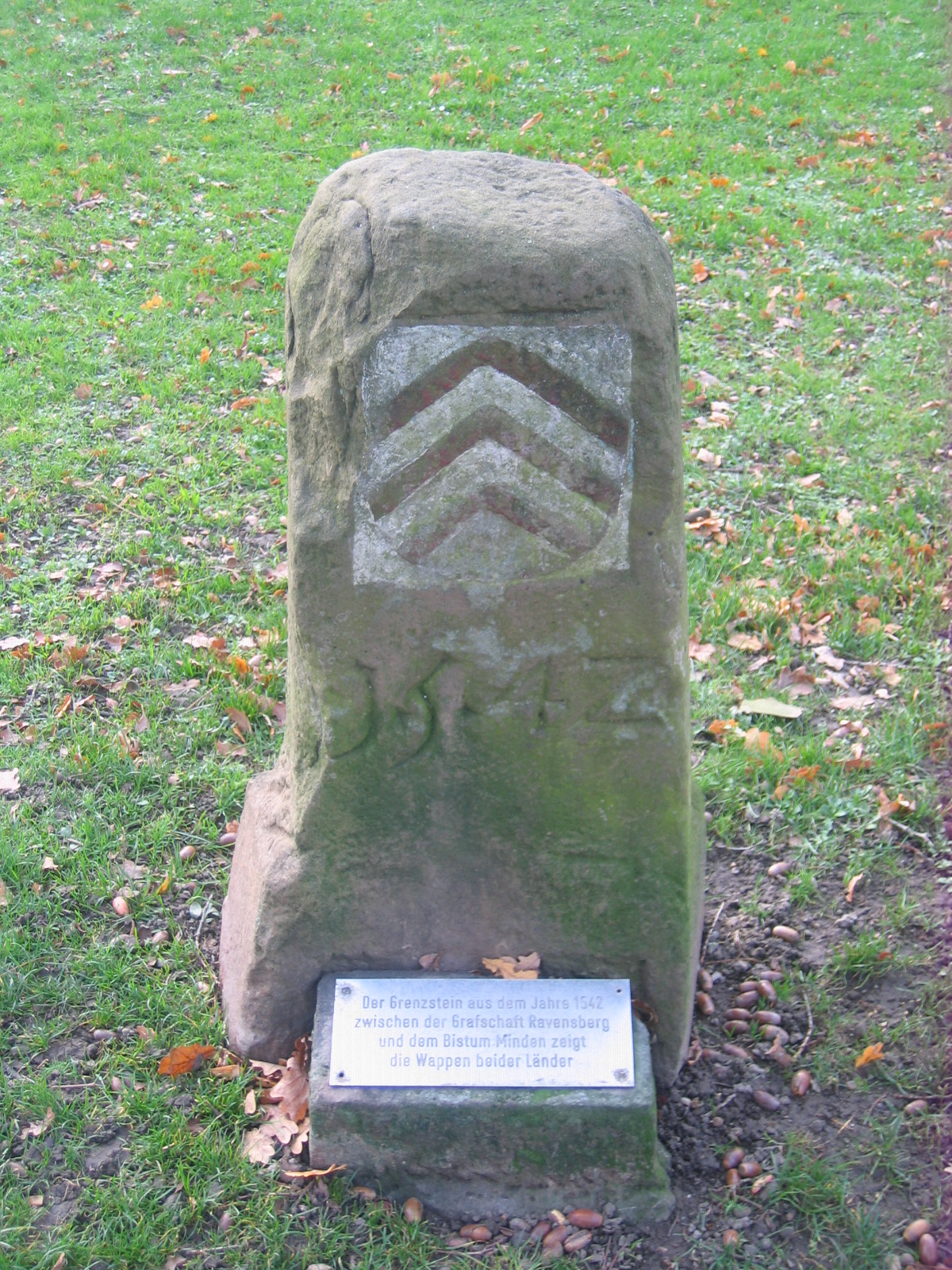 Boundary stone between Minden and Ravensberg in the spa garden in Bad Oeynhausen, District of Minden-Lübbecke, North Rhine-Westphalia, Germany.